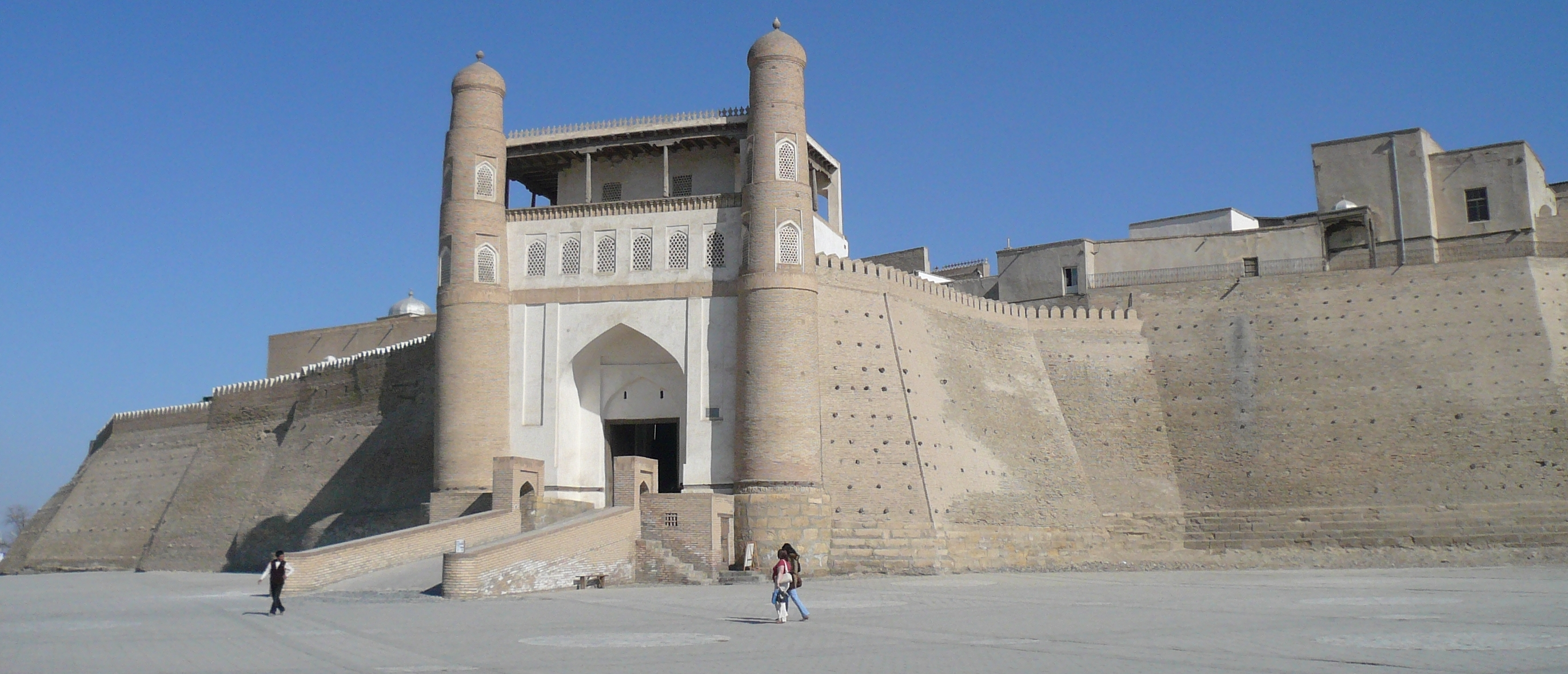 Fortress Ark, Bukhara, Uzbekistan